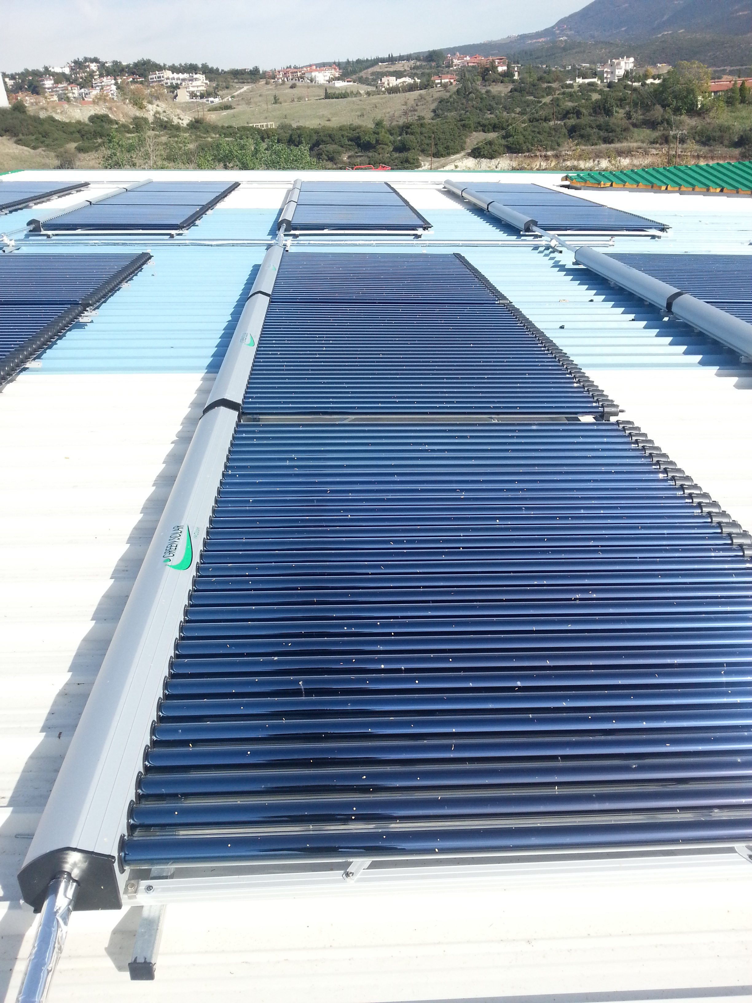 GREEN SOLAR vaccum Solar collectors with evacuated tubes at Panorama, Thessaloniki.